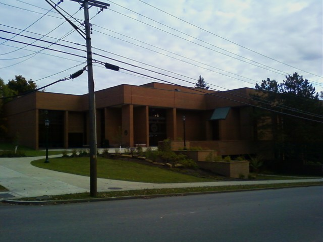 The Pelletier Library at Allegheny College.